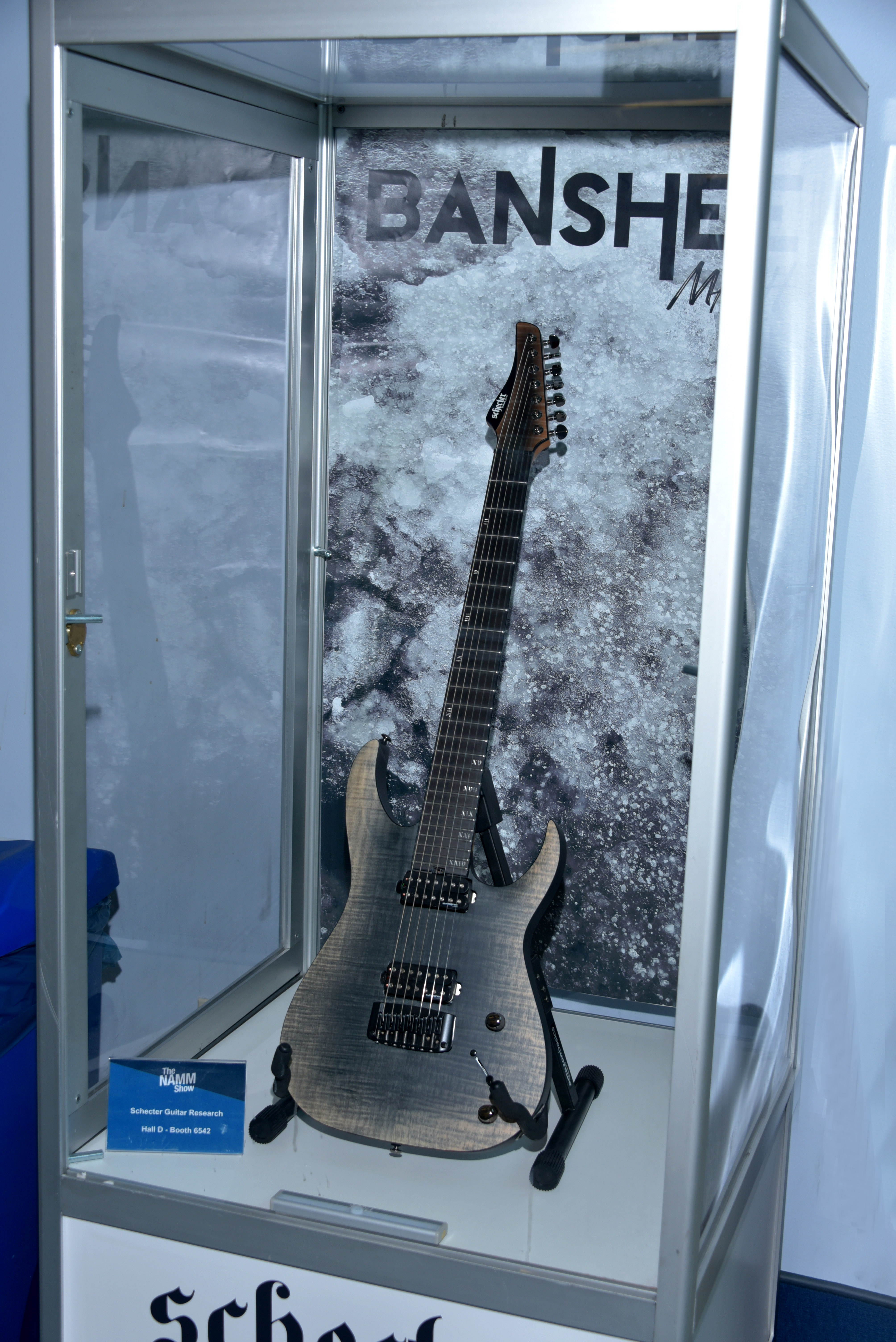 Schecter Guitar Research Display at 'The NAMM Show' on January 17, 2020 in Anaheim, California - Photo by Glenn Francis of